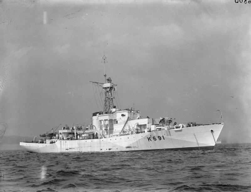 Photograph of British corvette HMS Lancaster.